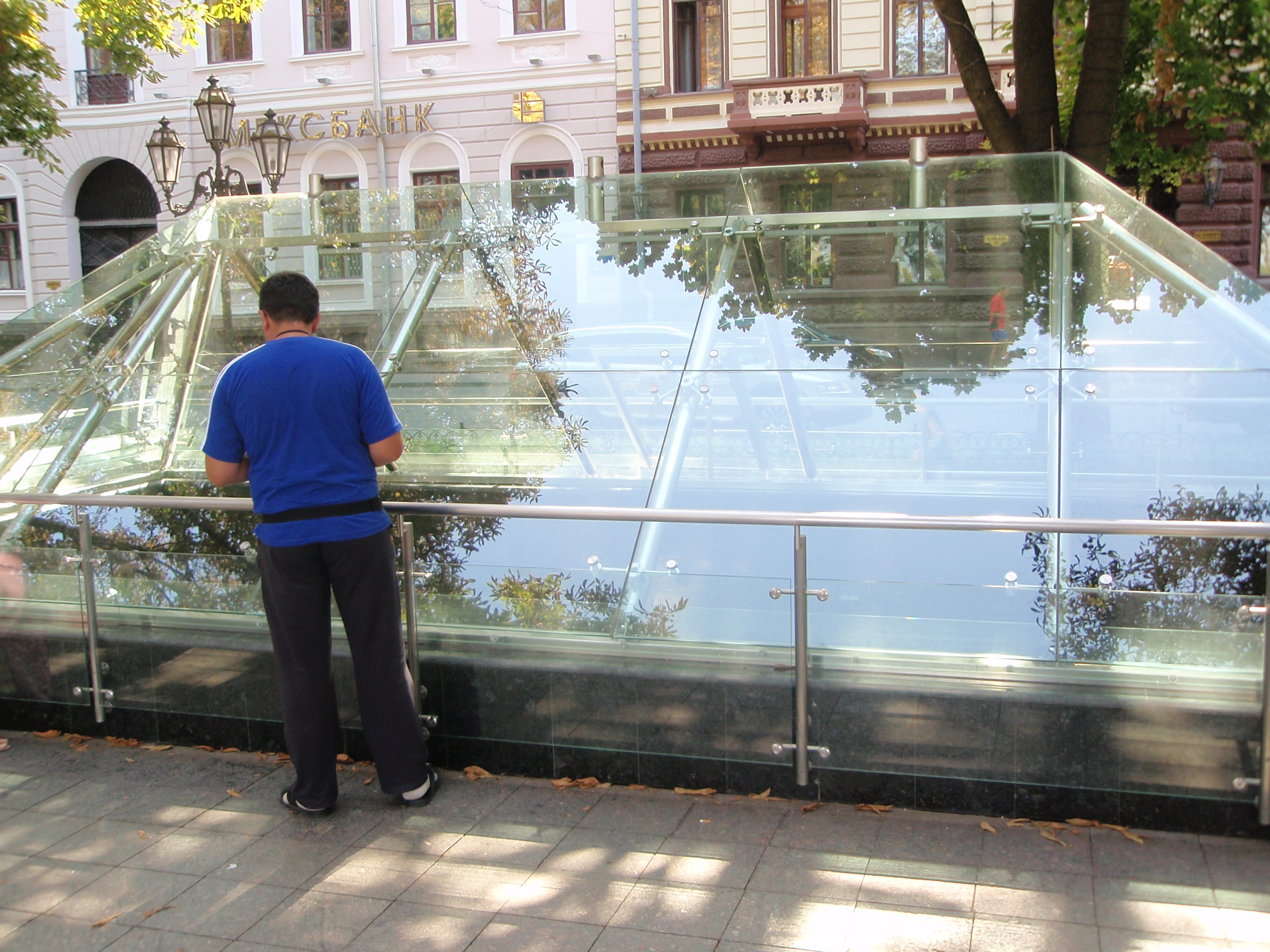 Ancient Greek settlement in Odessa (Ukraine)